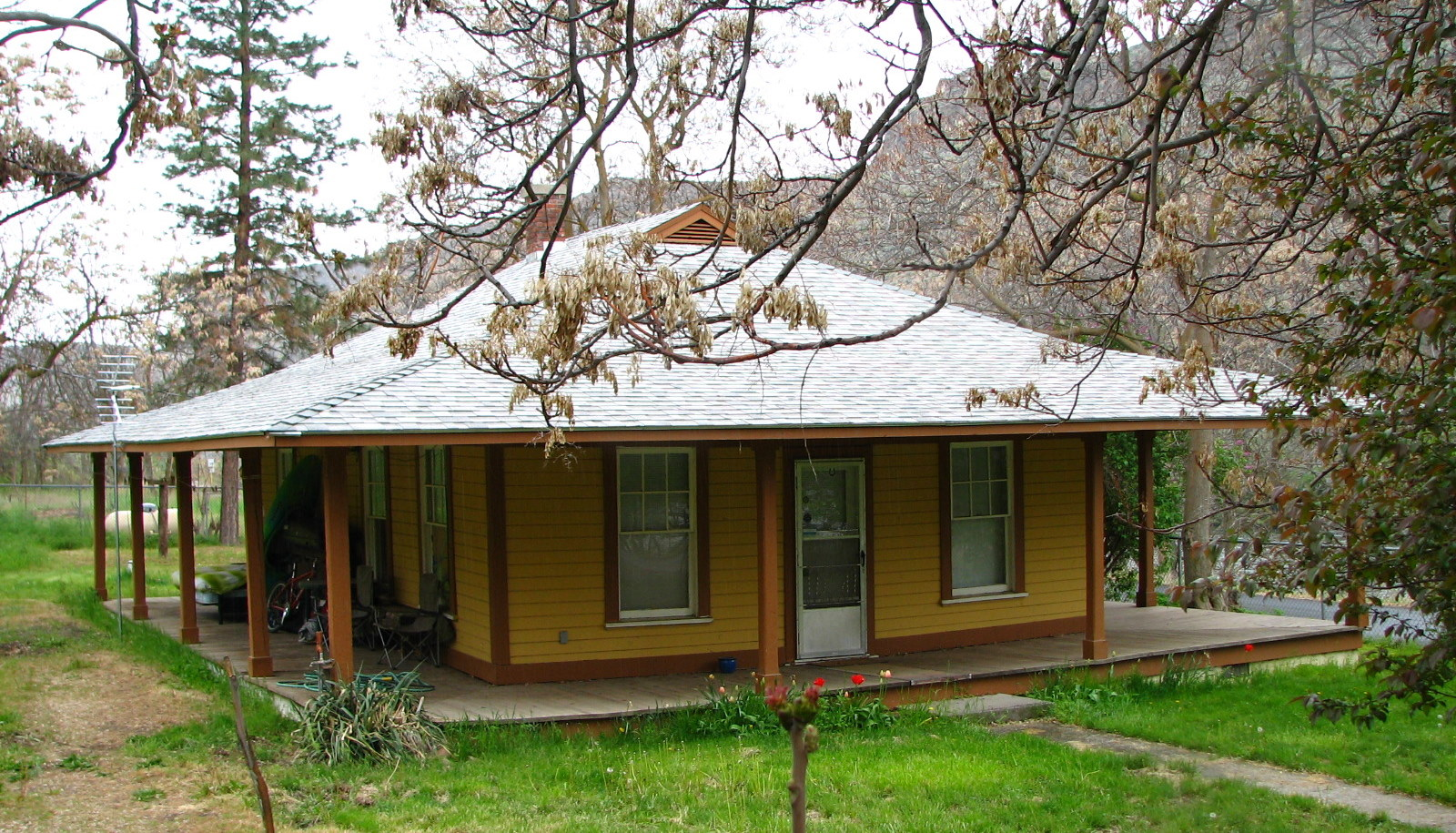 The historic Maupin Section Foreman's House (built ca. 1910), located at 601 Deschutes Access Road in Maupin, Oregon, United States, is listed on the US National Register of Historic Places.